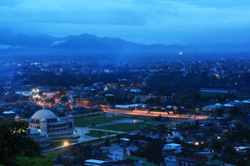 Imphal city at night